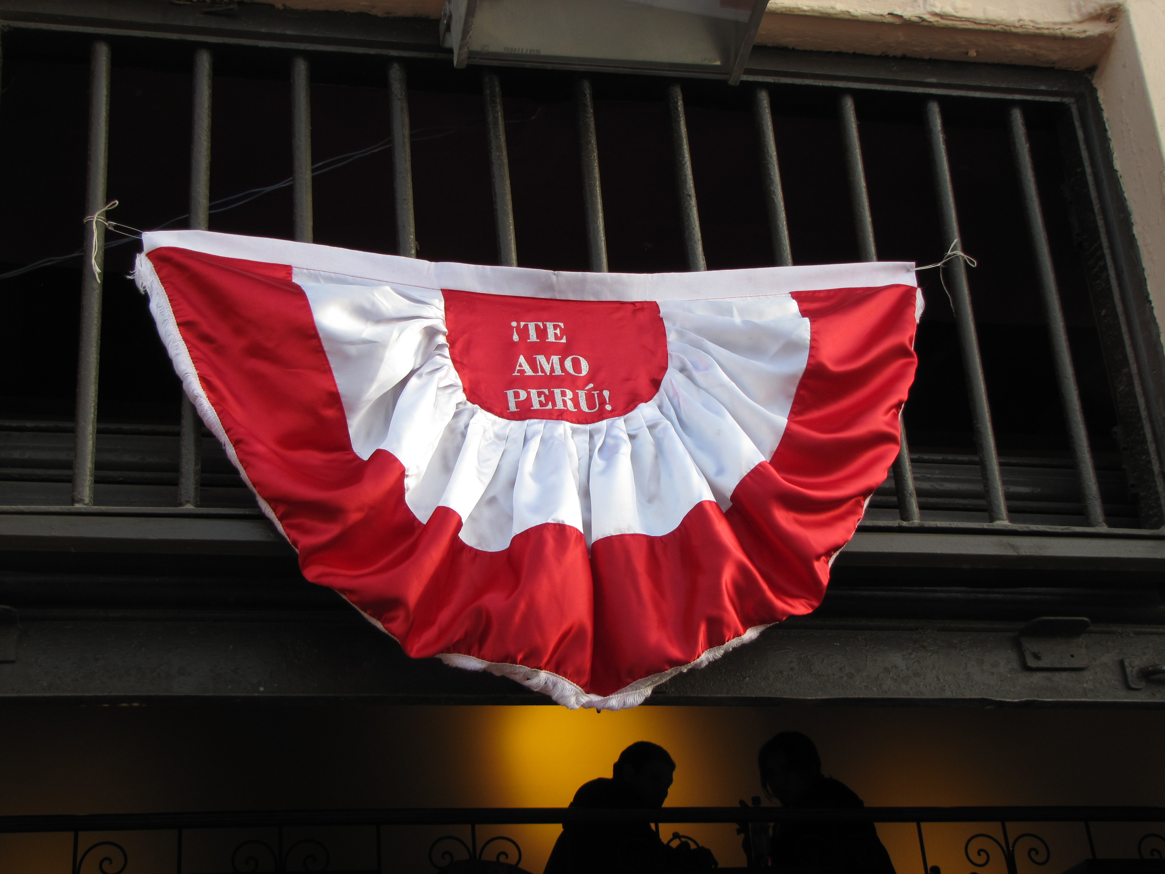 A visit to Lima, Peru on vacation through South America, July 2010 (cc) David Berkowitz